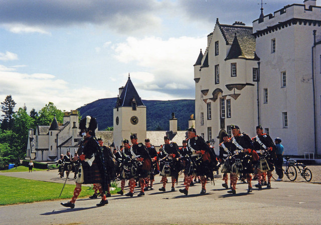 Call to arms The Atholl Highlanders at Blair Castle. The Duke of Atholl was granted the unique right of a British citizen to levy a private army by Queen Victoria in 1844.